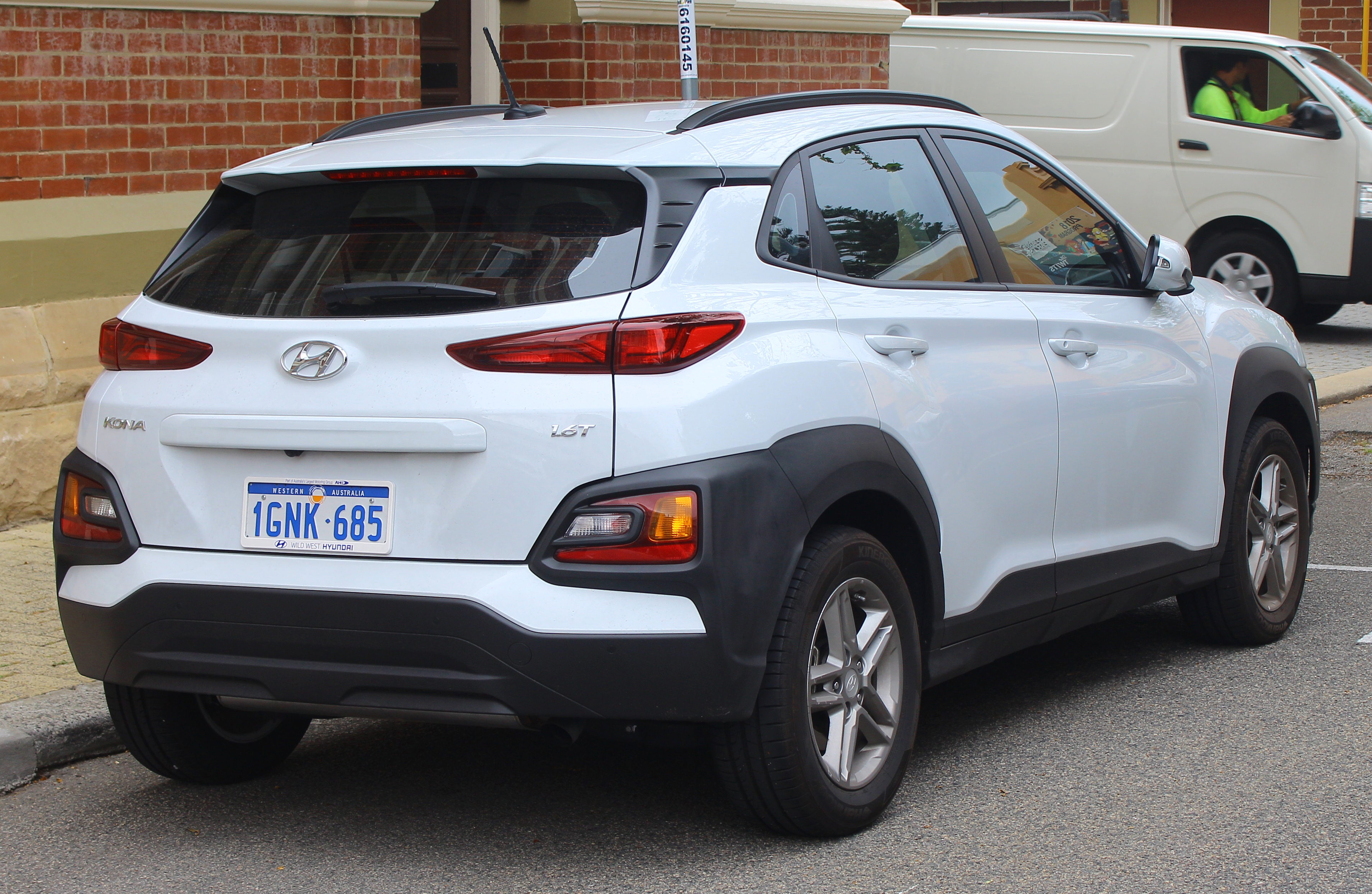 2018 Hyundai Kona (OS MY18) Active 2WD wagon. Photographed in Fremantle, Western Australia, Australia.